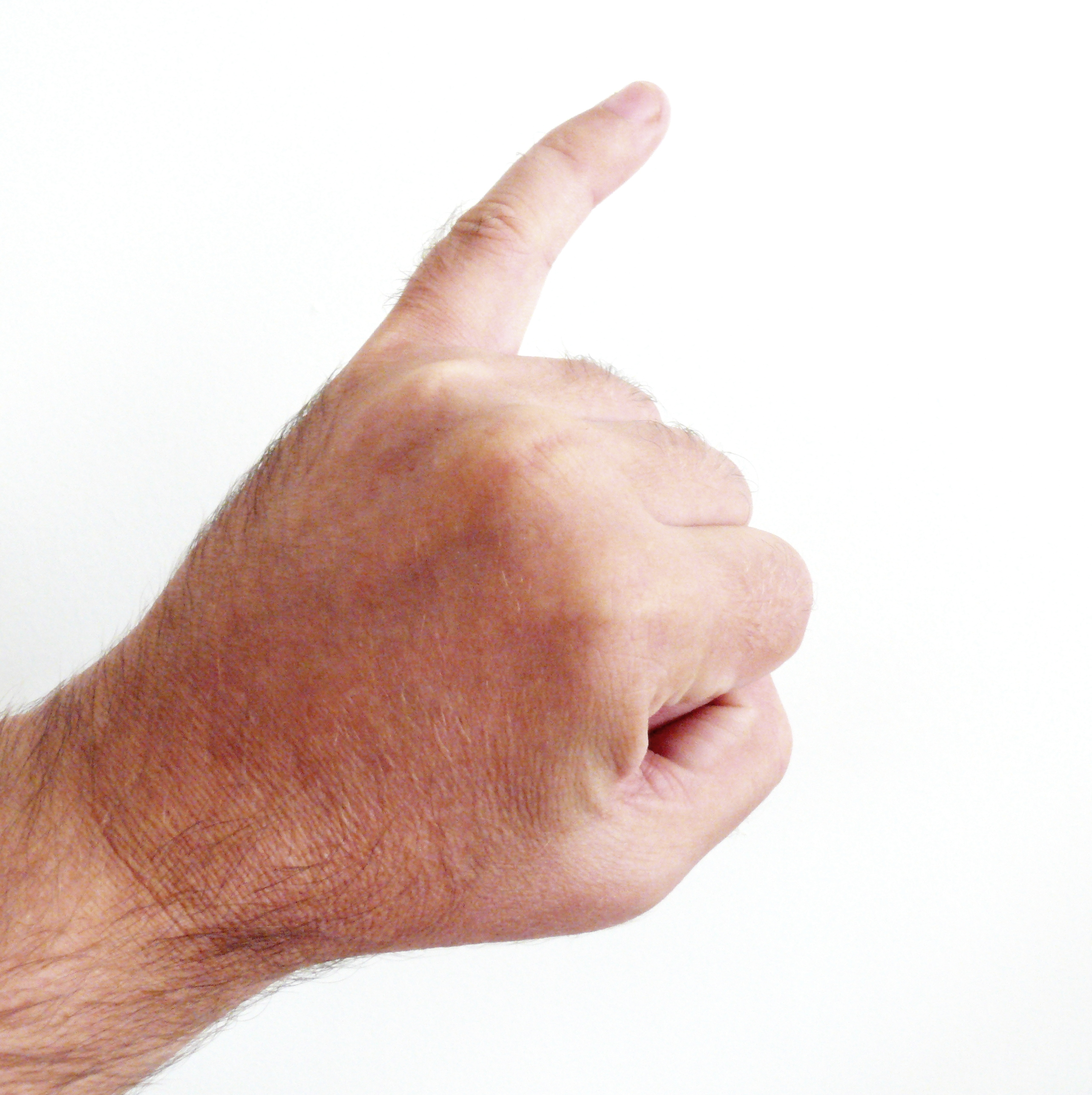 Heil Sonnensternraptor.